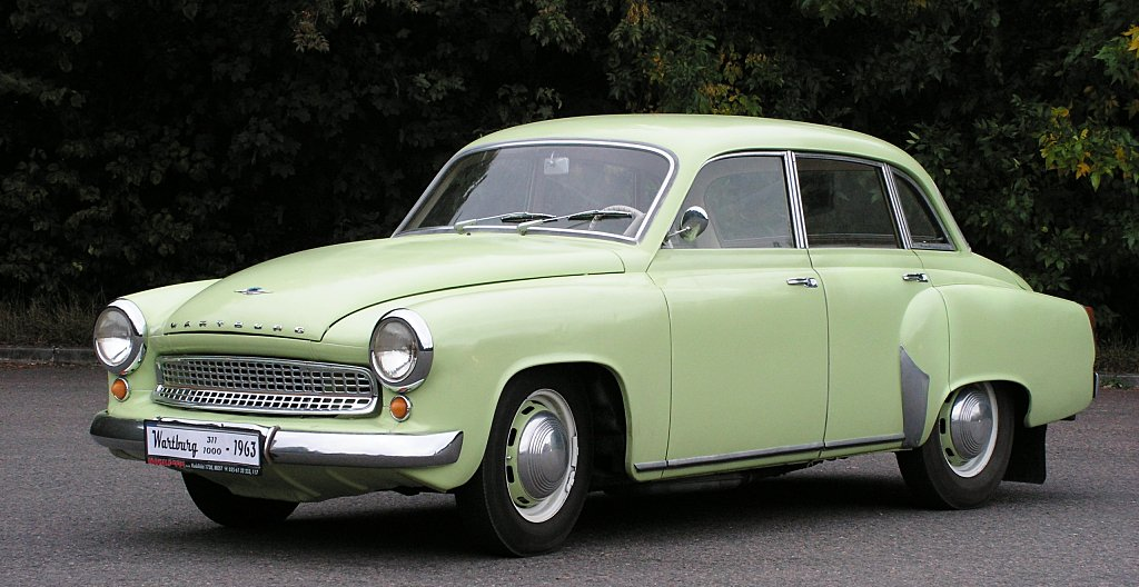 Wartburg model 311 - 1000 from year 1963